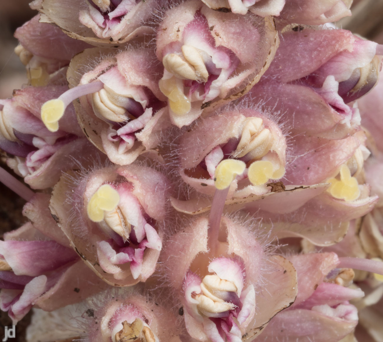 Lathraea squamaria (Toothwort) in Morpeth, Northumberland